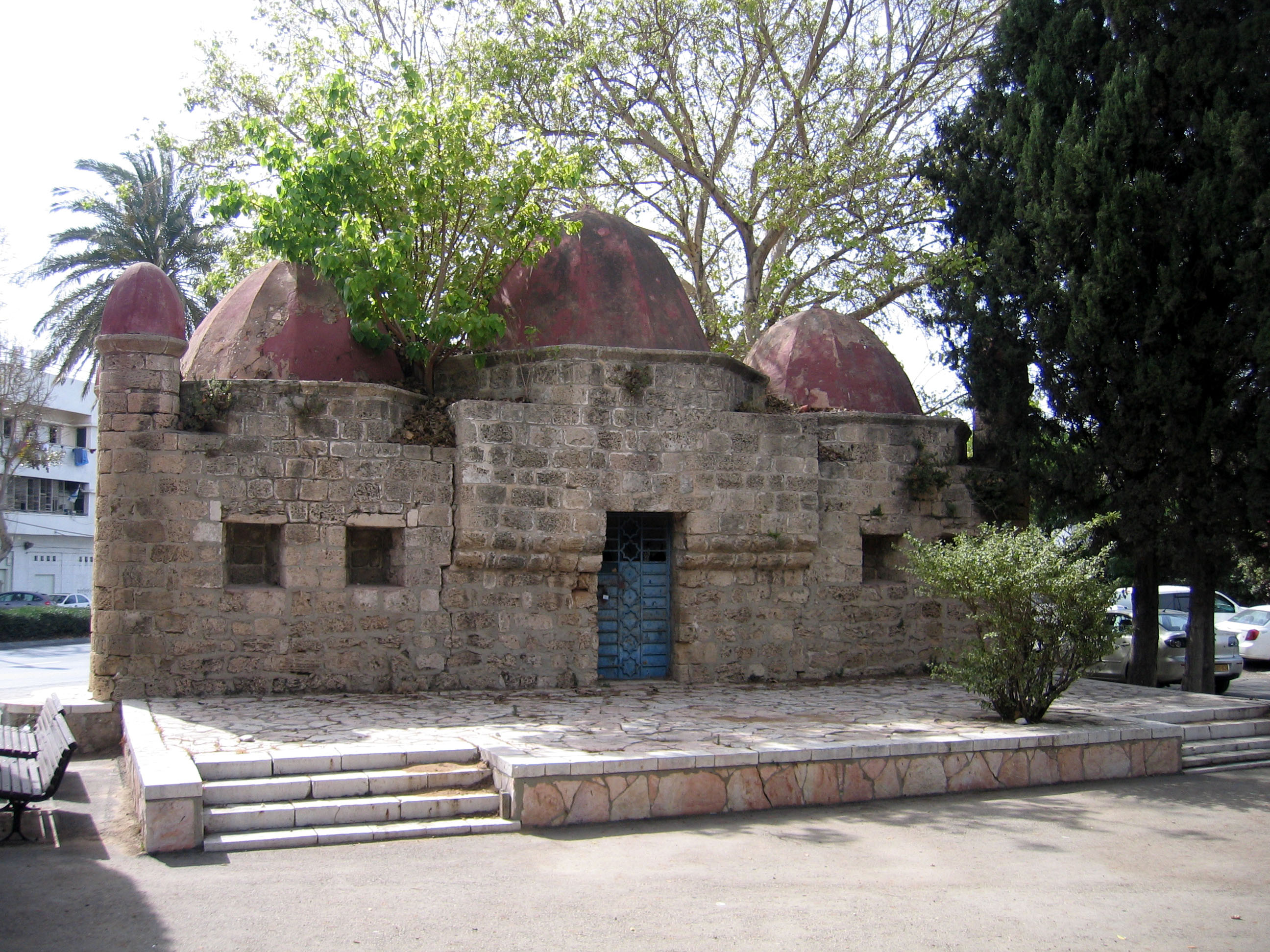 Abu Nabut Trough at Abu Nabut Park, Tel Aviv-Yaffo. Built in 1815 by Mohamad Agh'a (Abu Nabut), Govenor of Jaffa.